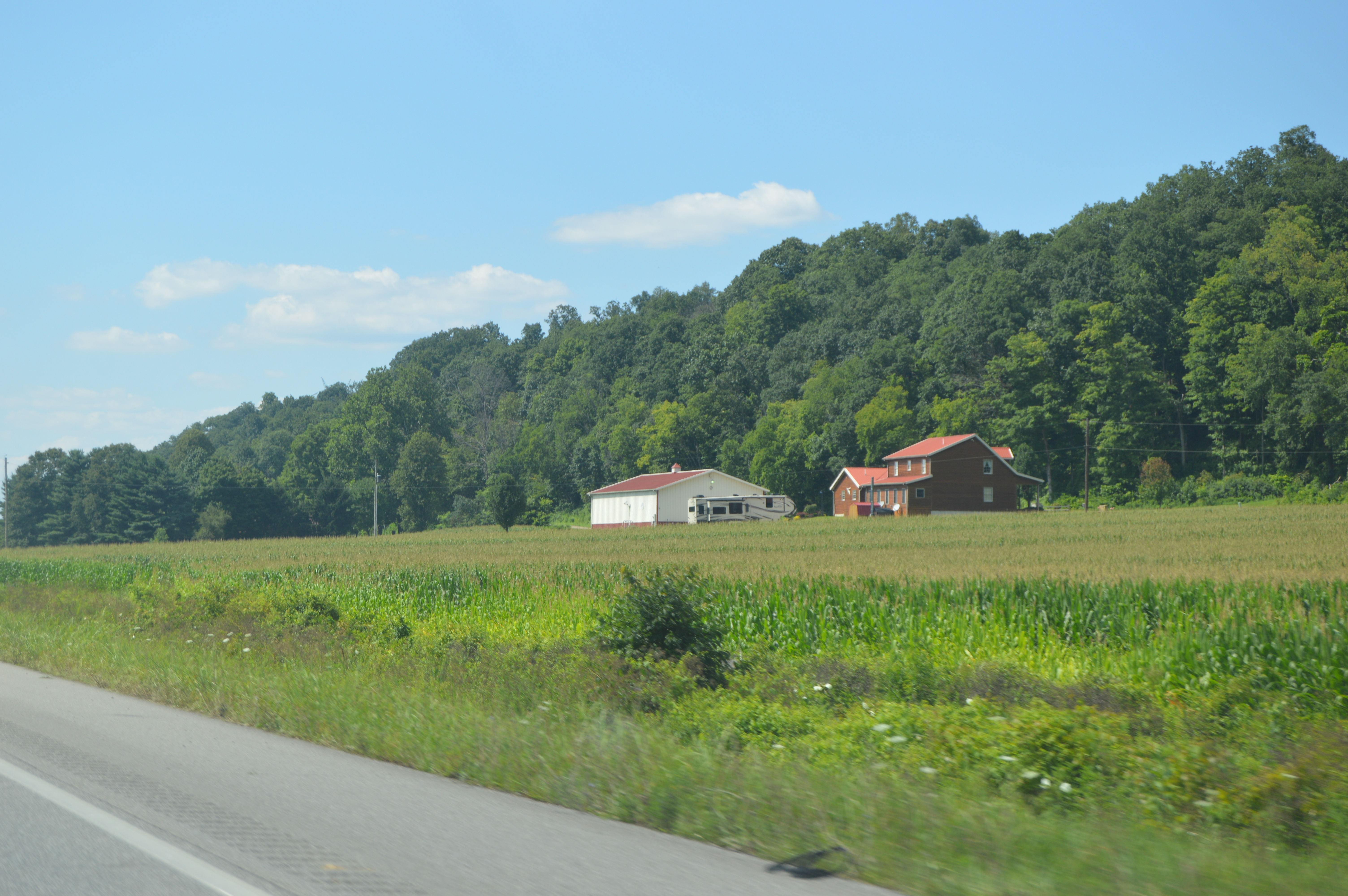 A house and shed located along Back Road, seen looking north from U.S. Route 52, southeast of Franklin Furnace in southeastern Green Township, Scioto County, Ohio, United States.